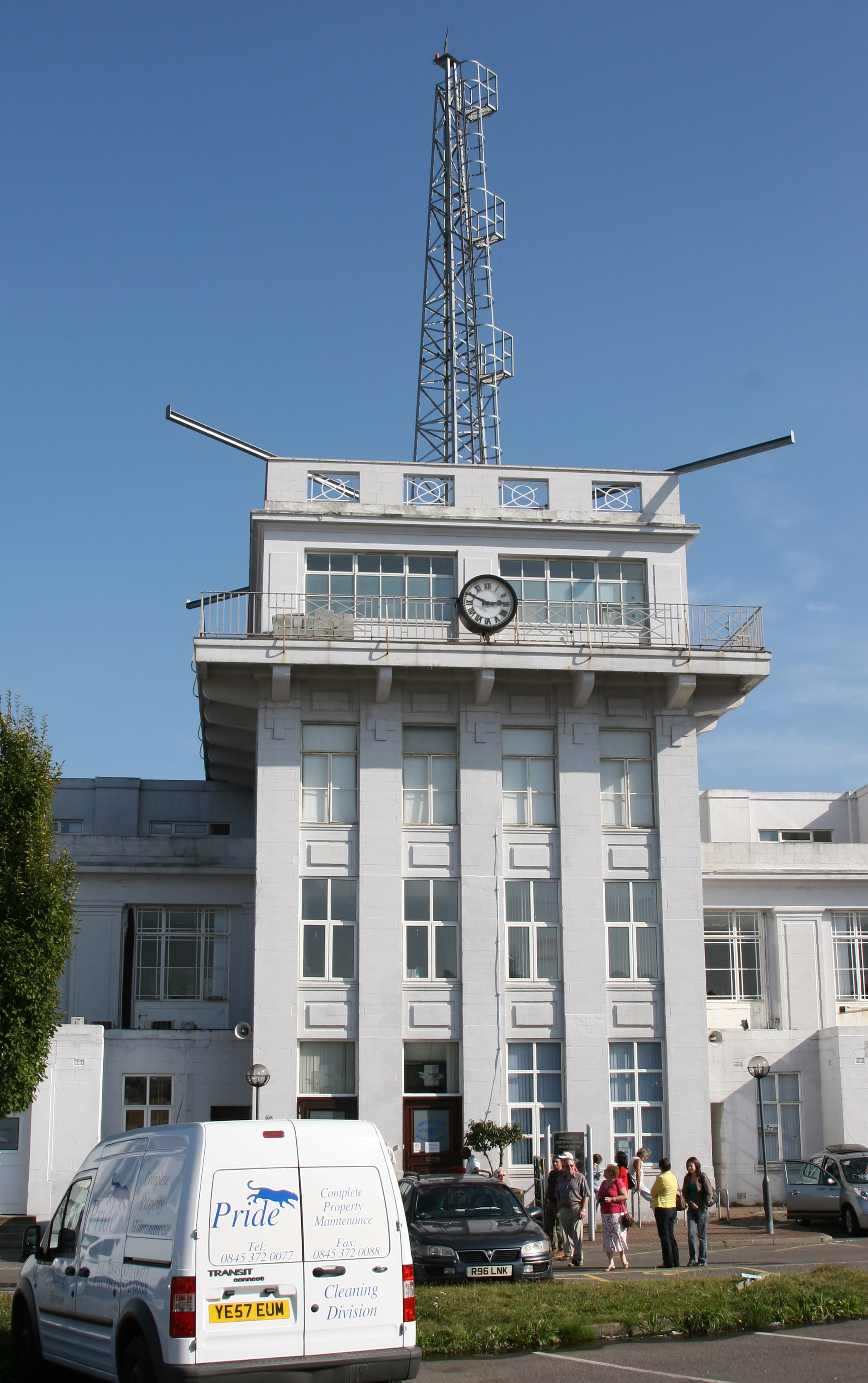 Croydon Airport Control Tower (Disused)